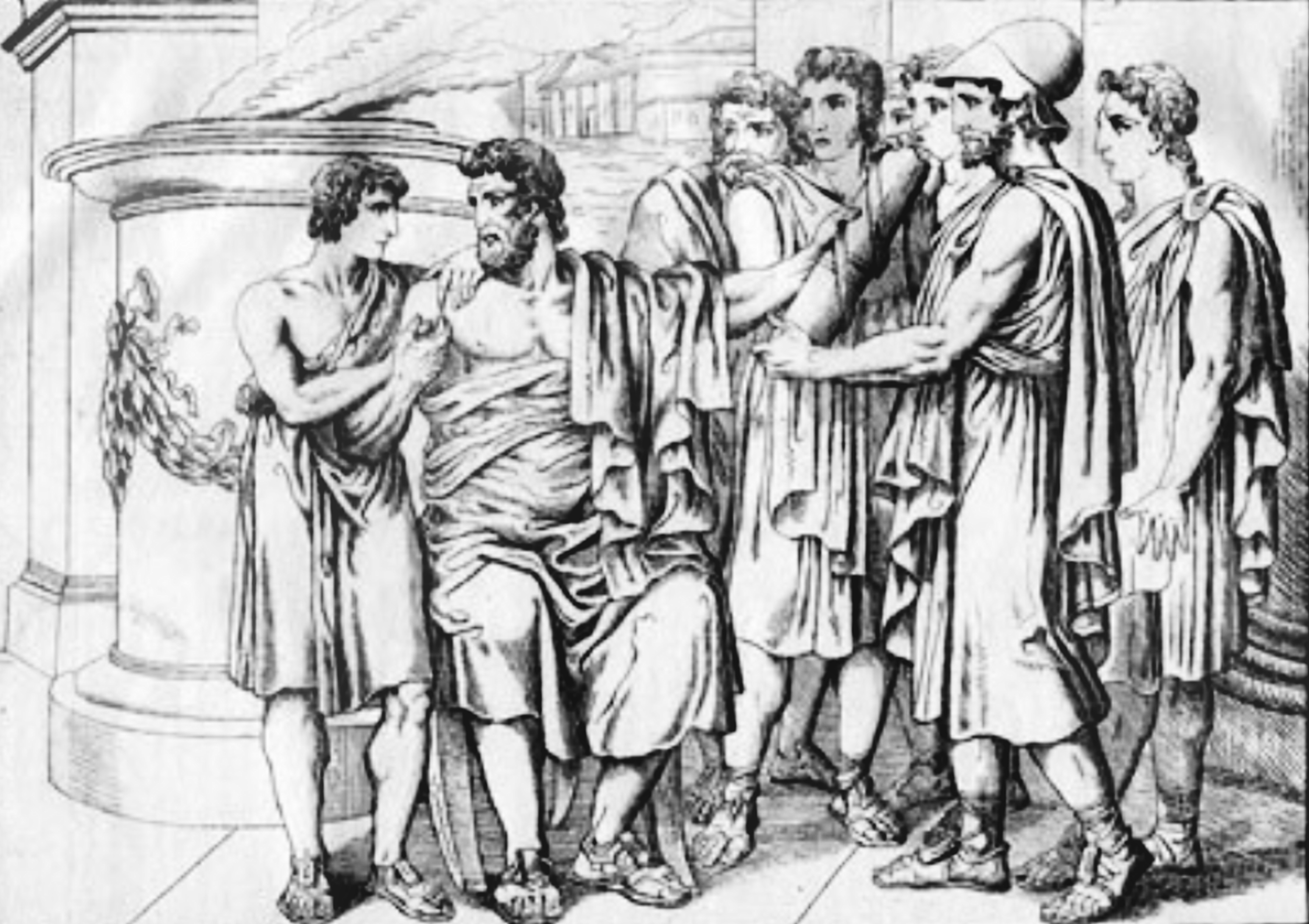 Lycurgus gives his laws to the people before his death